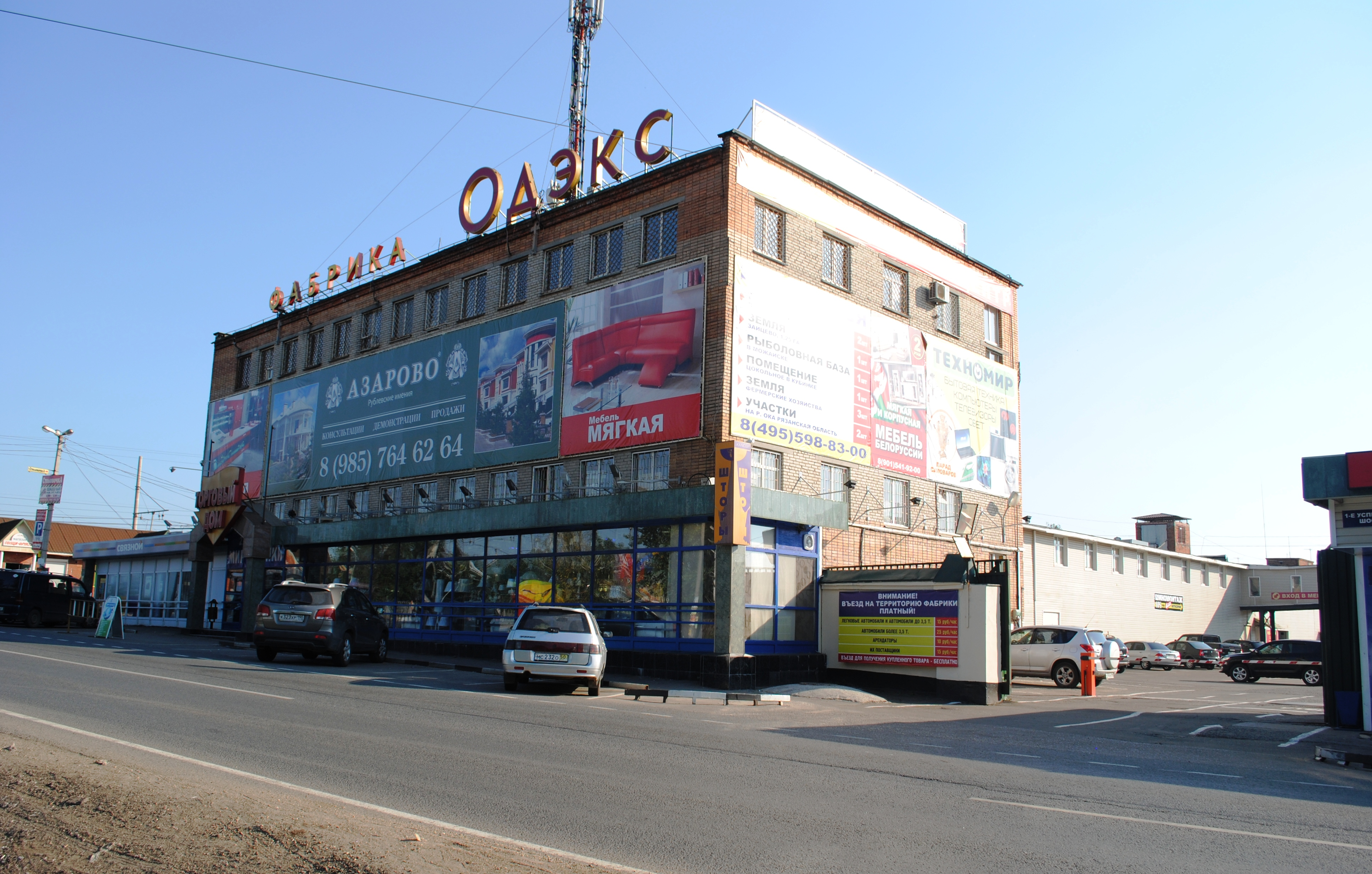 Udino